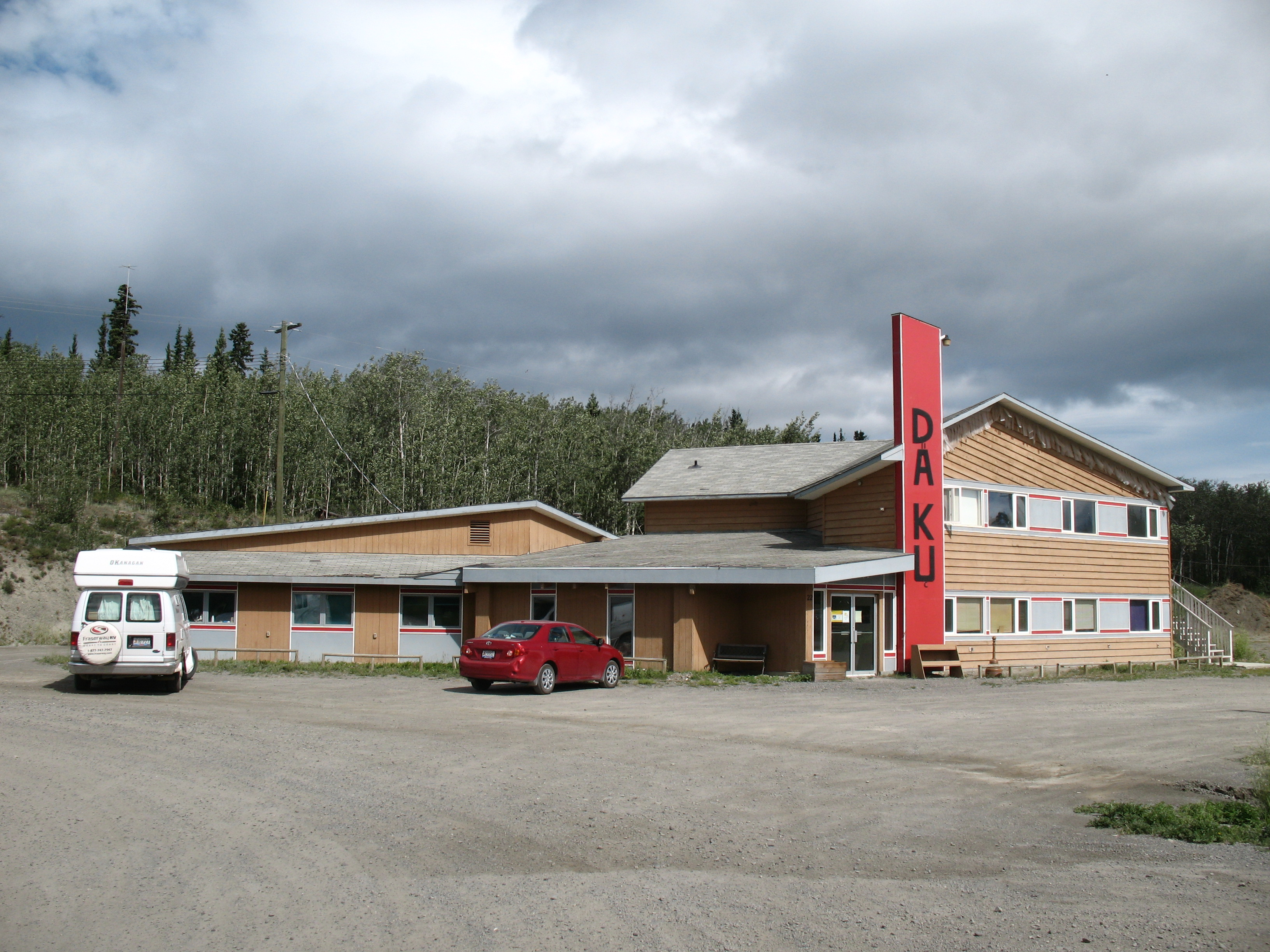 Da Ku (Our House), Information Centre of the Champagne and Aishihik First Nations